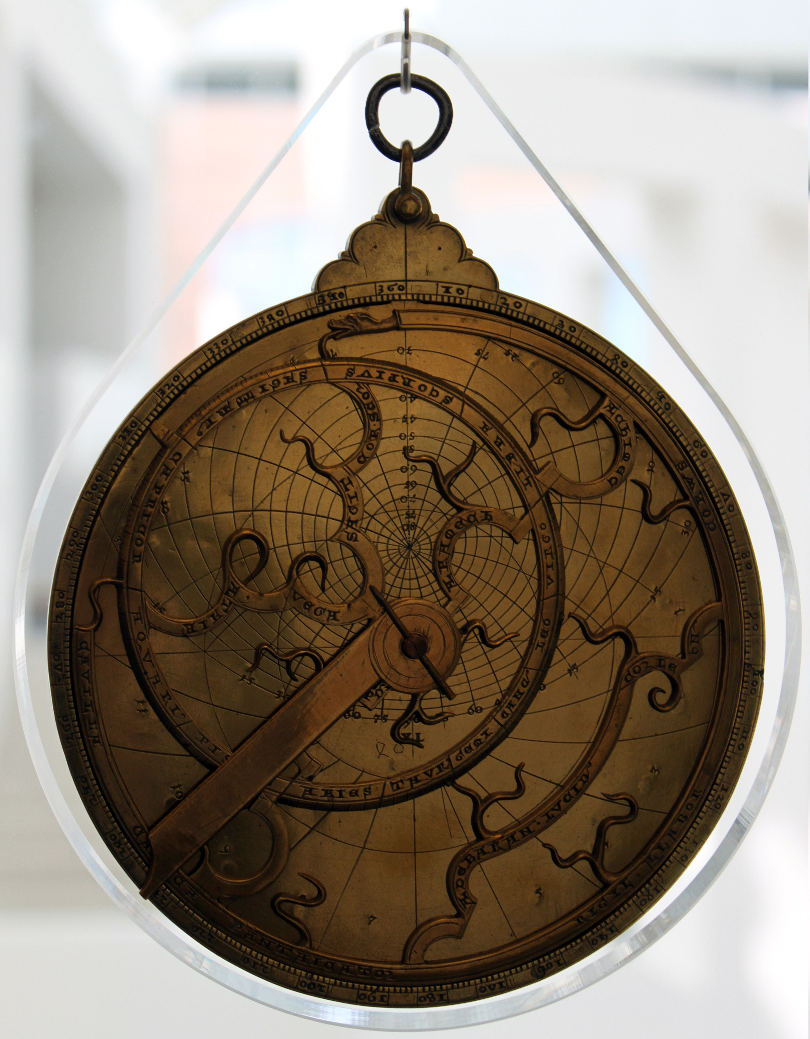 Astrolabe from Italy, 14th Century; Germanic National Museum in Nuremberg